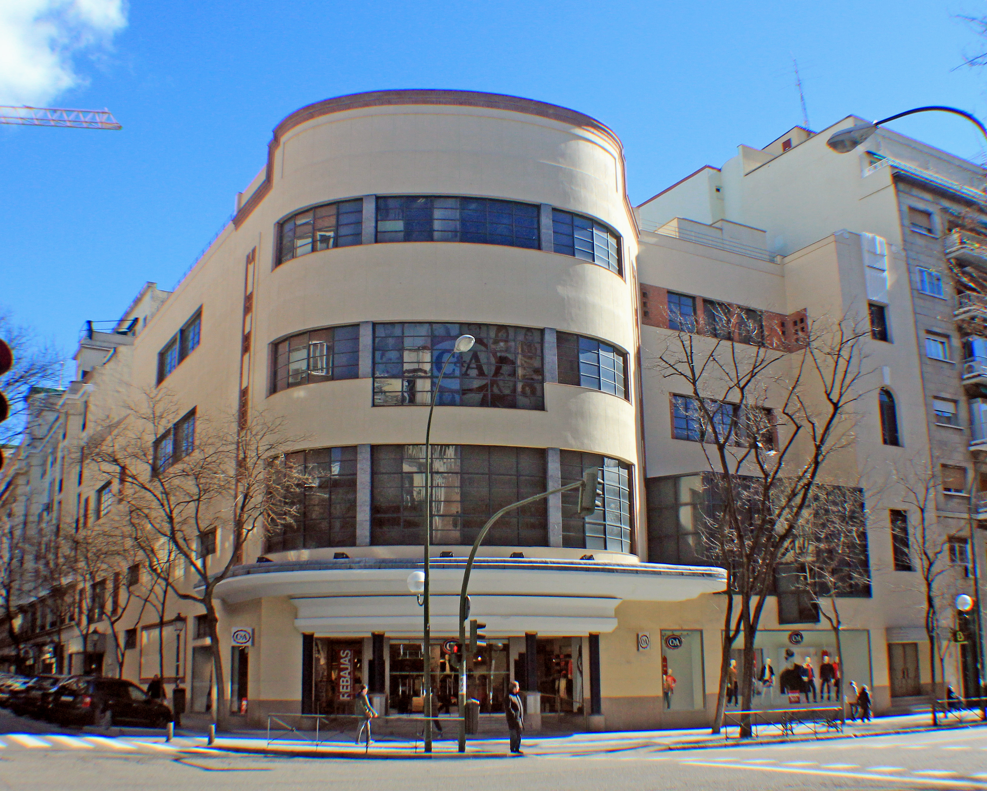 Former Cine Salamanca (a cinema) at 8th Calle del Conde de Peñalver (street) in Madrid (Spain). Building was designed in 1933 by architect Francisco Alonso Martos and built from 1934 to 1935. Nowadays it is home to a C&A shop.